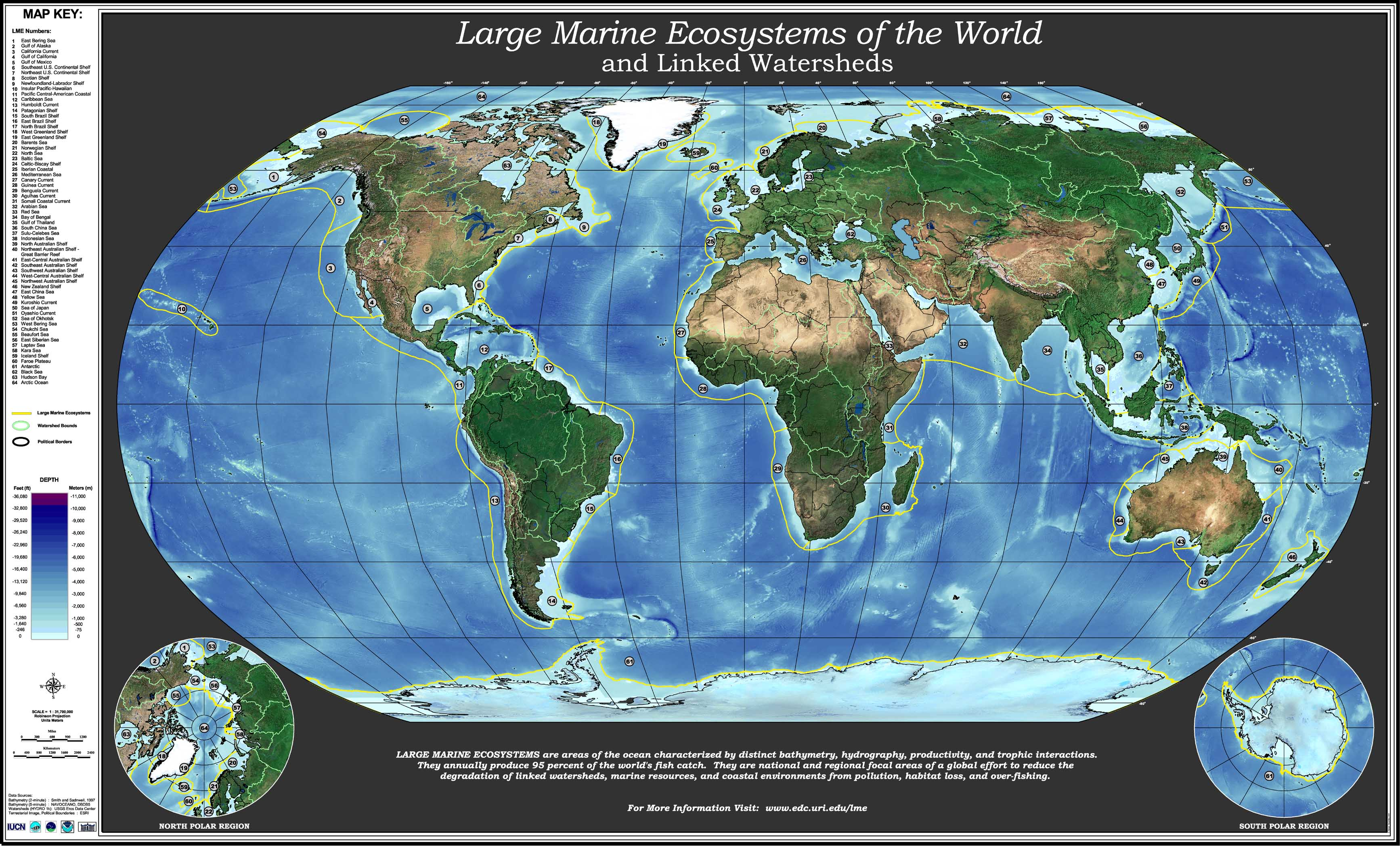 Global map of large marine ecosystems. Large marine ecosystems (LMEs) produce 95 percent of the world's fish catch, making them the focal point of global efforts for sustained and predictable productivity. Oceanographers and biologists have identified 64 LMEs worldwide.